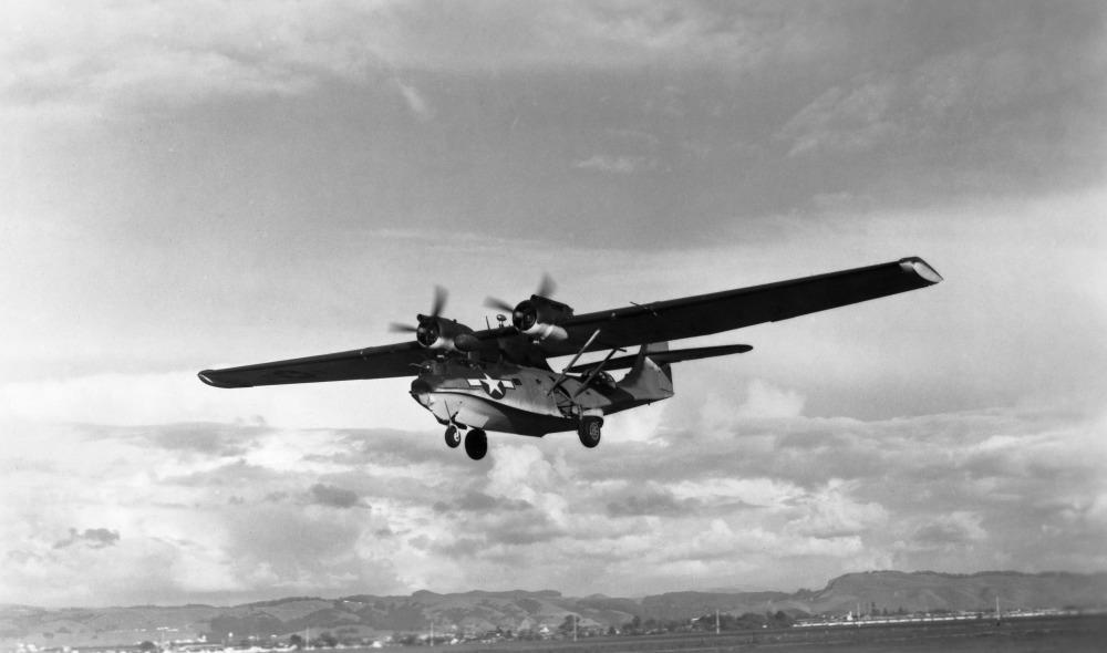 PictionID:41554728 - Title:Consolidated PBY-5A Oakland 16Feb47 Bill Larkins - Catalog:16_000592 - Filename:16_000592.tif - - - - - Image from the Ray Wagner Collection. Ray Wagner was Archivist at the San Diego Air and Space Museum for several years and is an author of several books on aviation --- ---Please Tag these images so that the information can be permanently stored with the digital file.---Repository: San Diego Air and Space Museum